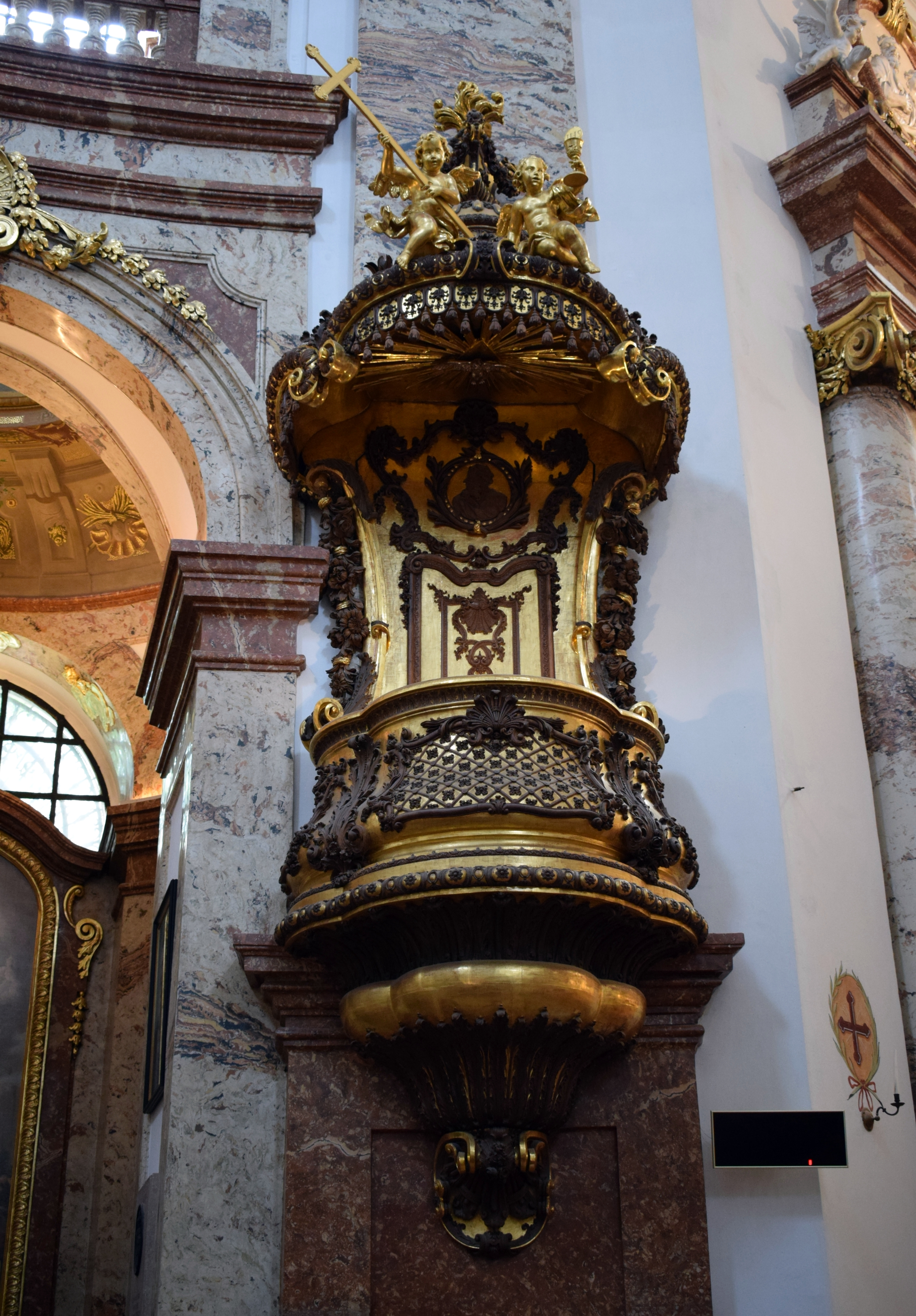 Baroque pulpit in the Karlskirche, Vienna. Wooden structure with rich floral and rocaille ornaments, gold and brown colour scheme, the abat-voix forms a canopy with two putti holding a cross and a chalice with host; flaming urn on the top. Designed by Joseph Emanuel Fischer von Erlach in 1735, executed by Claude le Fort de Plessy. Restored to its original form in 2007.